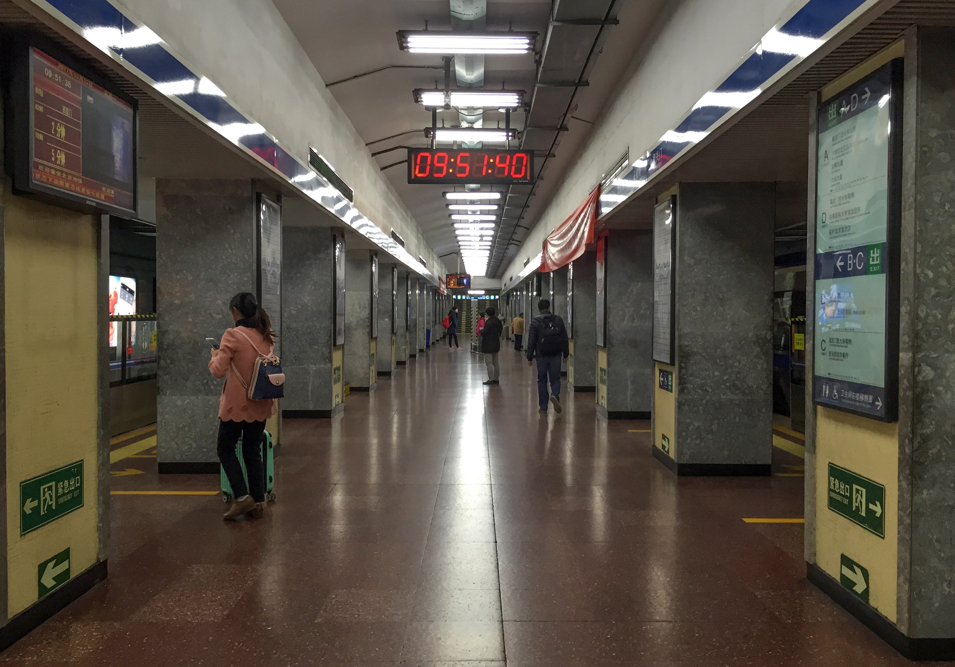 No interchange for Line 19.